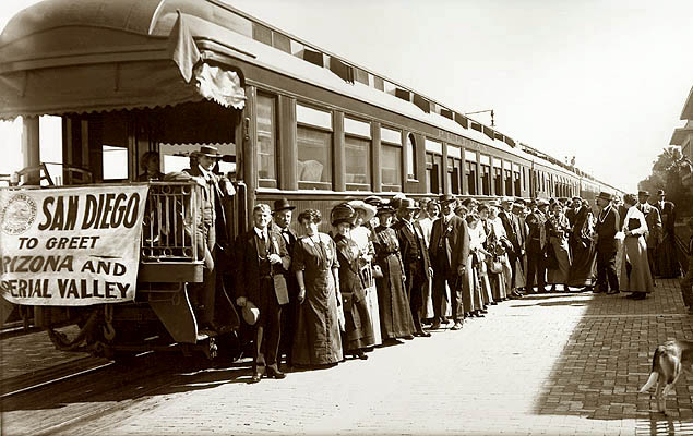 The first SD&A passenger train on its way to San Diego on December 1, 1919.